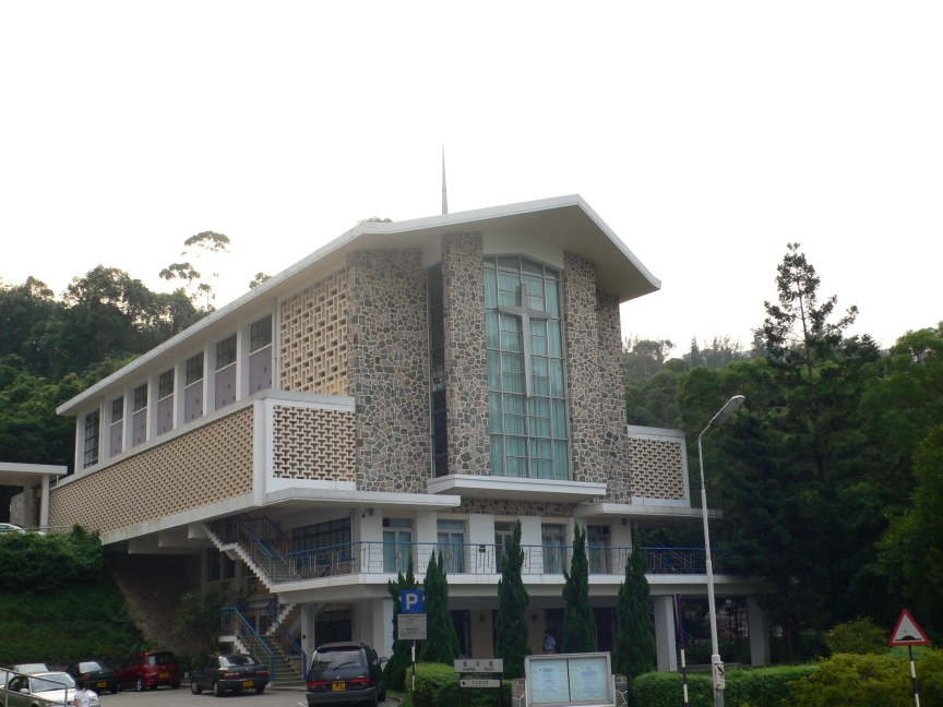 The chapel of Chung Chi College of The Chinese University of Hong Kong